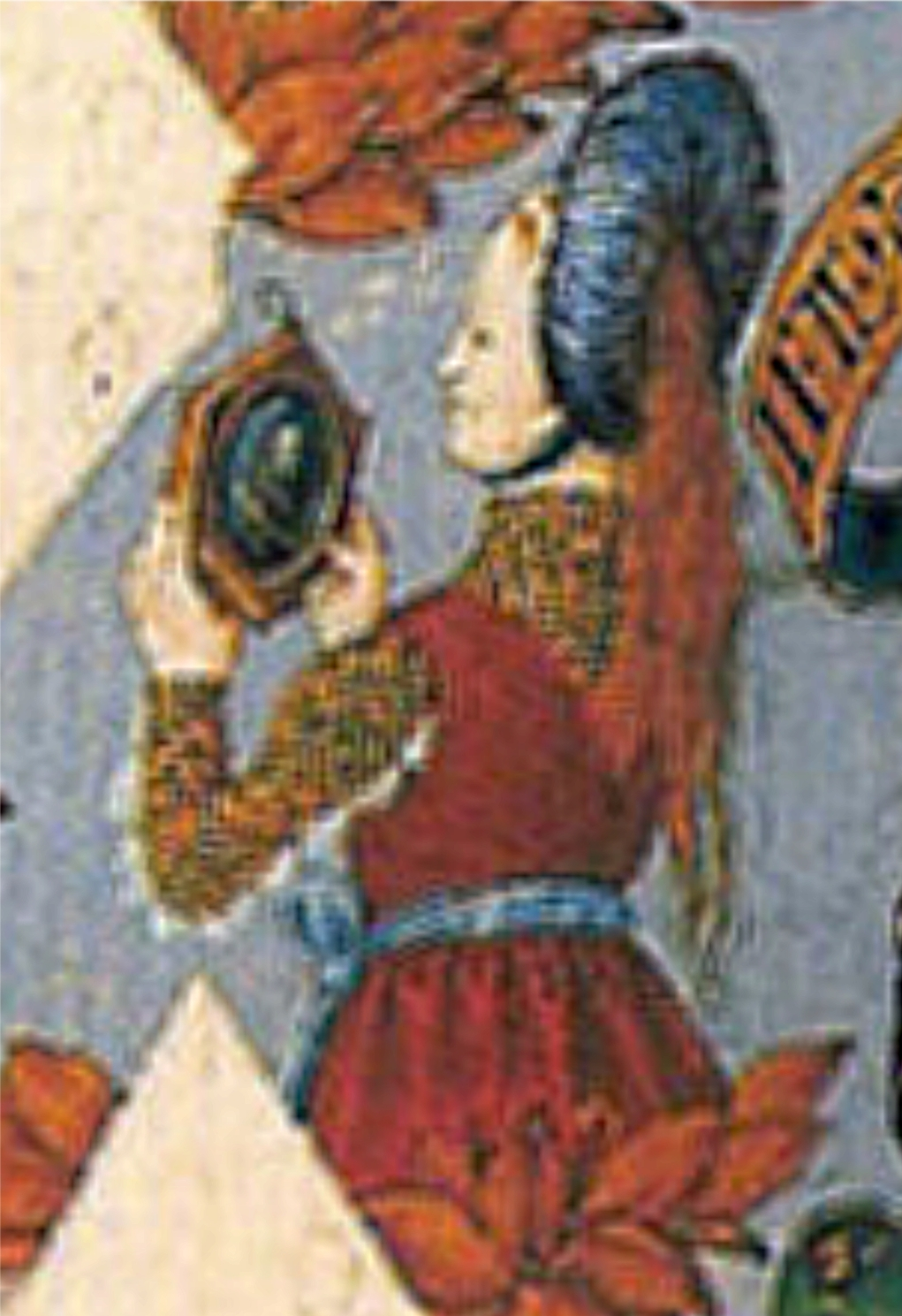 Mafalda, legitimate daughter of Afonso Henriques